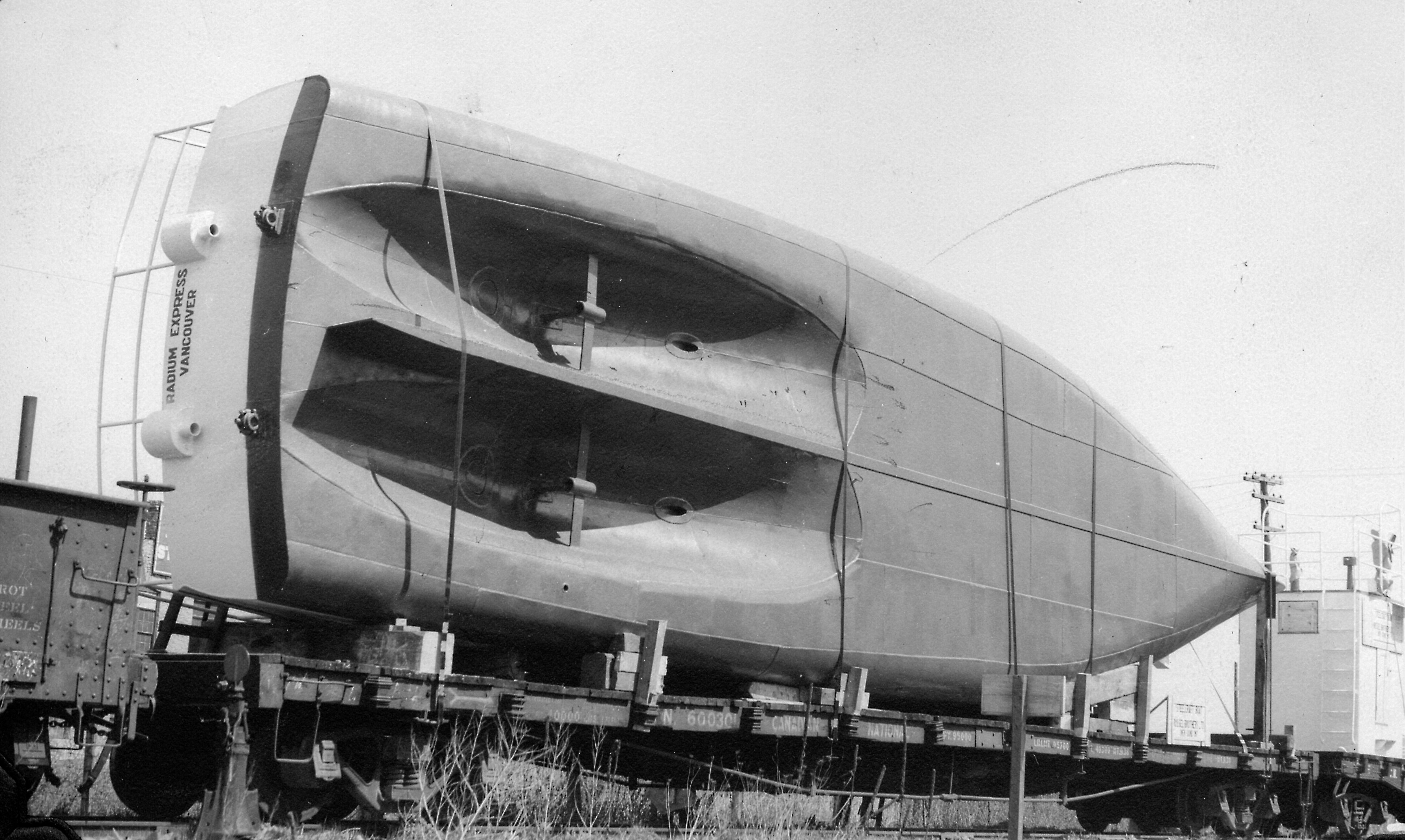 Hull of the Radium Express being shipped to Waterways alberta, 1939. This image of the underside of the Radium Express, shows its rare channels for its propellers, an adaptation for shallow water navigation.